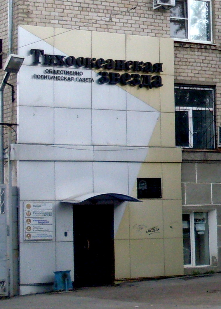 Doors to the editor "Tikhookeanskaya zvezda" in Khabarovsk.